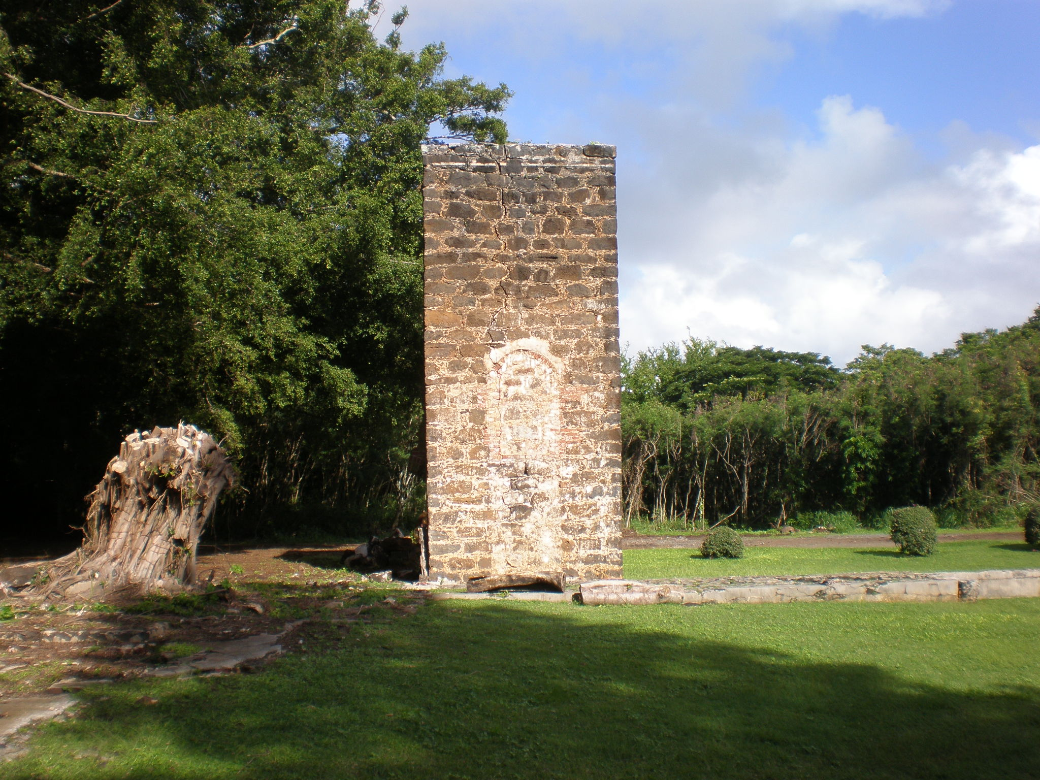 Brick chimney, Old Sugar Mill of Koloa, Kauai, Hawaii, on National Register of Historic Places